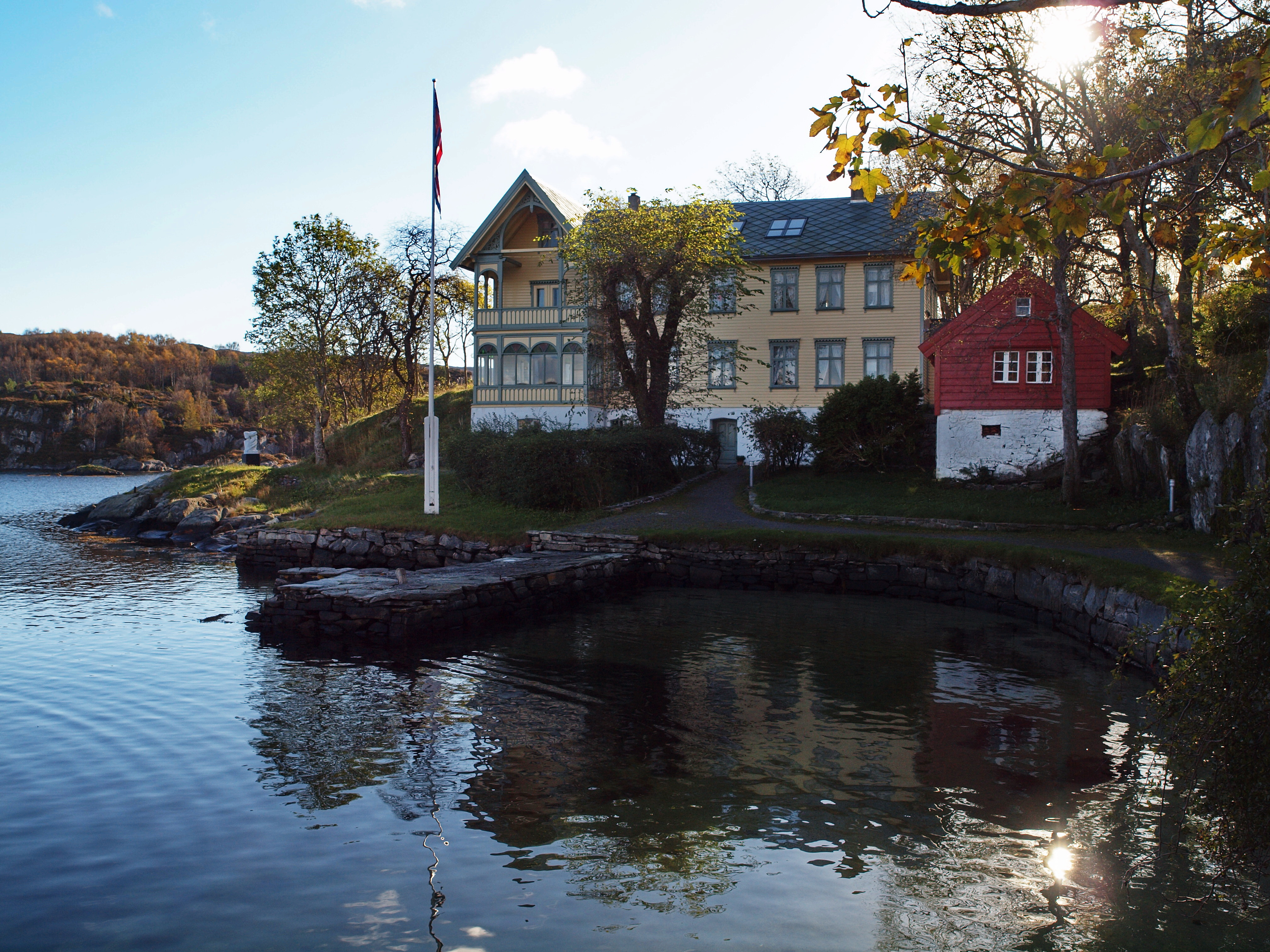 Skjerjehamn, Dalsøyra, Gulen municipality, Sogn og Fjordane county, Norway.